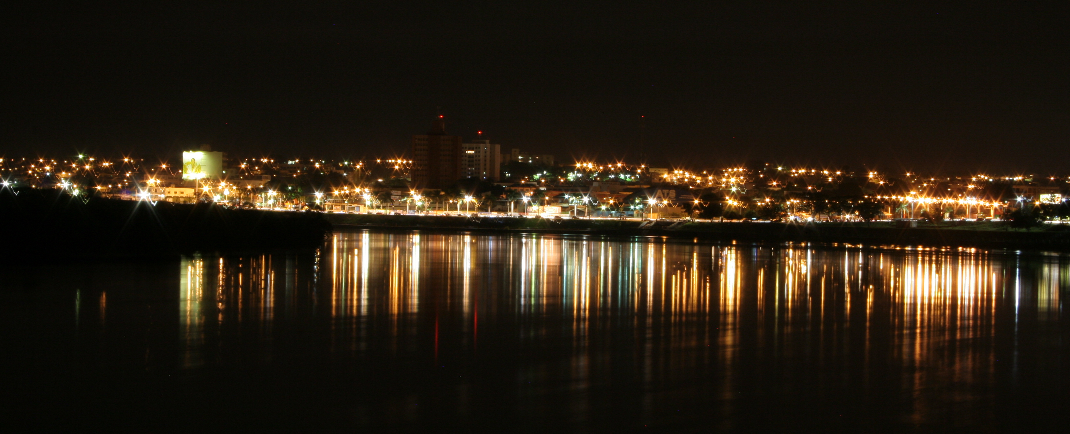 View from Itumbiara's Beira Rio